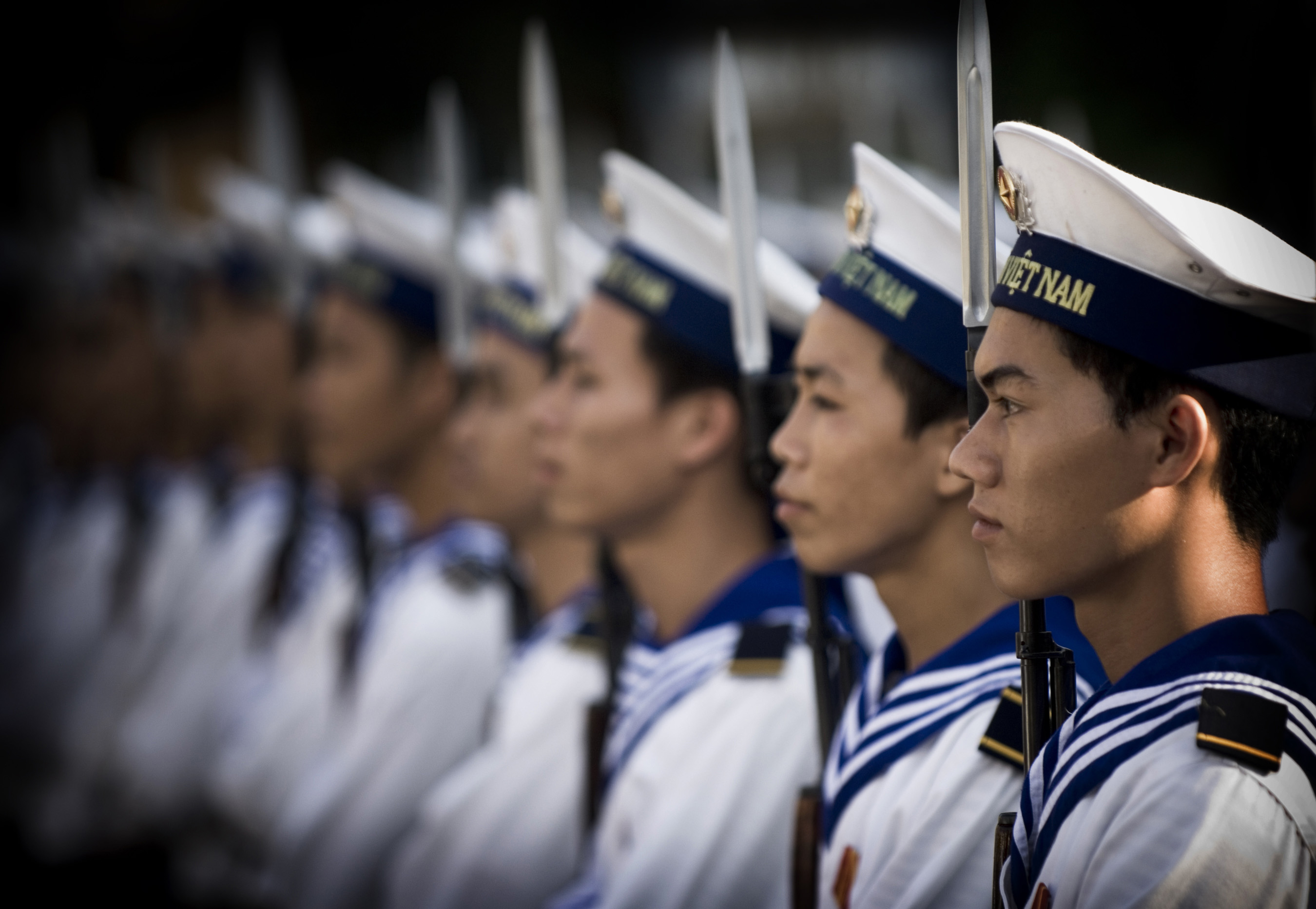 Vietnamese People's Navy sailors stand in formation to be inspected by Chief of Naval Operations Adm. Mike Mullen during his visit to Hai Phong, Vietnam, June 20, 2007. Mullen is on a seven-day trip to Japan and Vietnam to visit with counterparts and U.S. Navy Sailors stationed in the region. ID: 070620-N-0696M-397